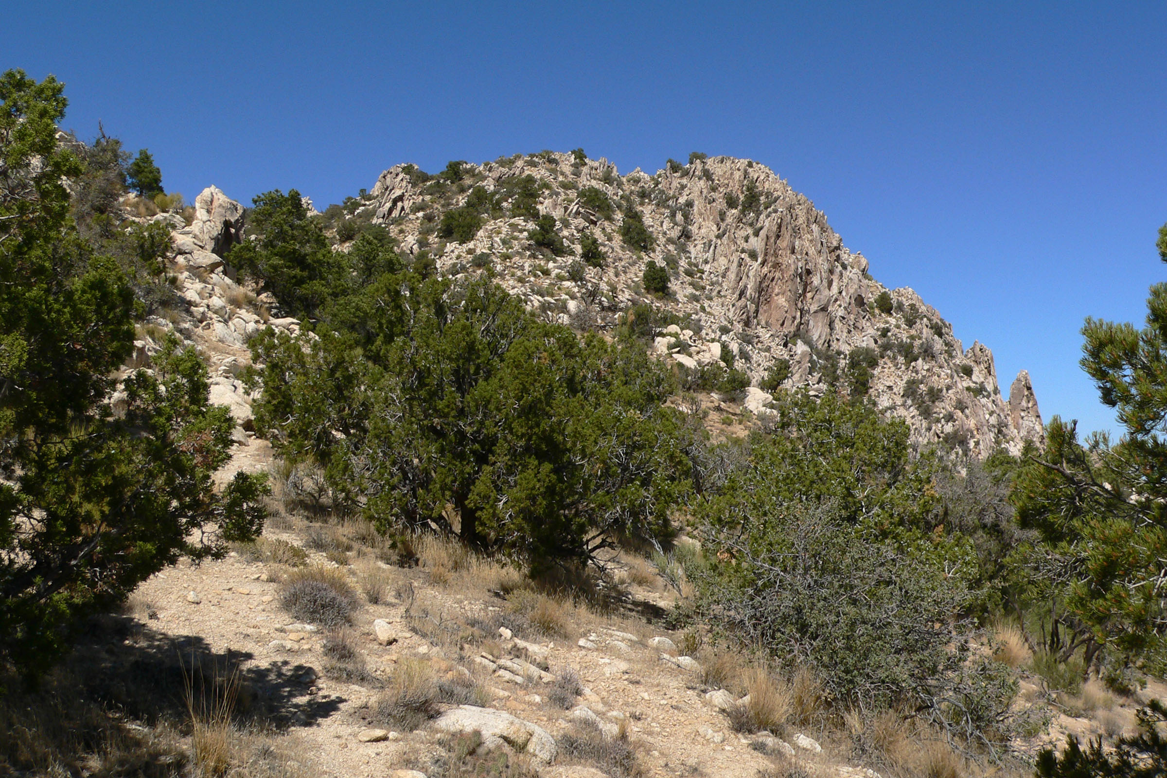 On summit ridge, Spirit Mountain, Newberry Mountains, southern Nevada